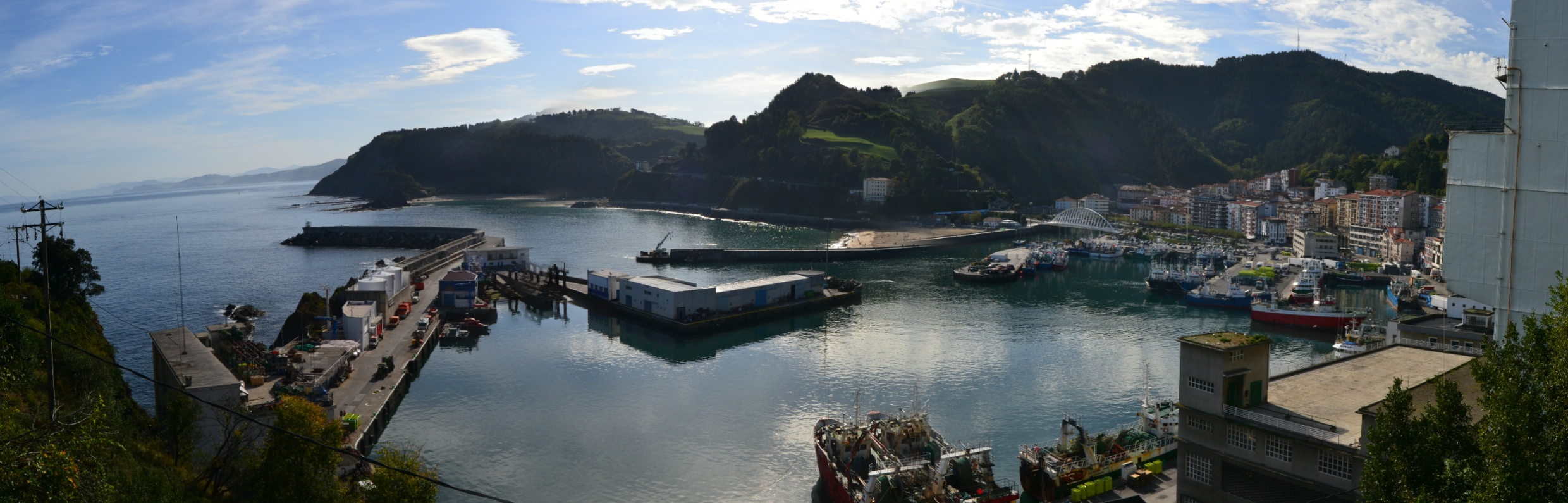 View of Ondarroa village and port.